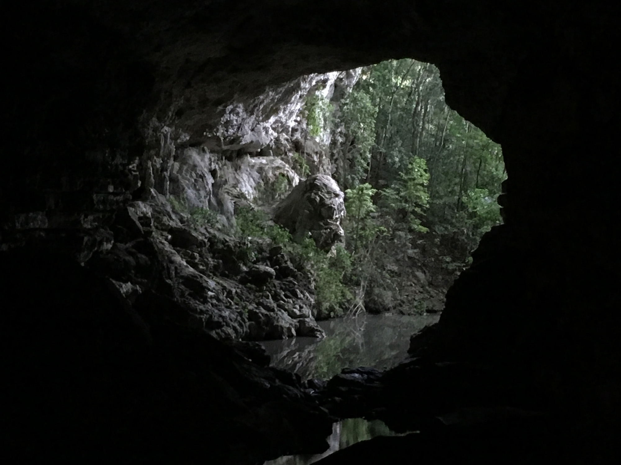 One of the two openings to Rio Frio Cave in Belize